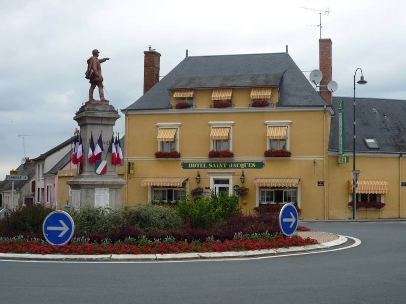 Monument with hotel in Thorigne-sur-Due